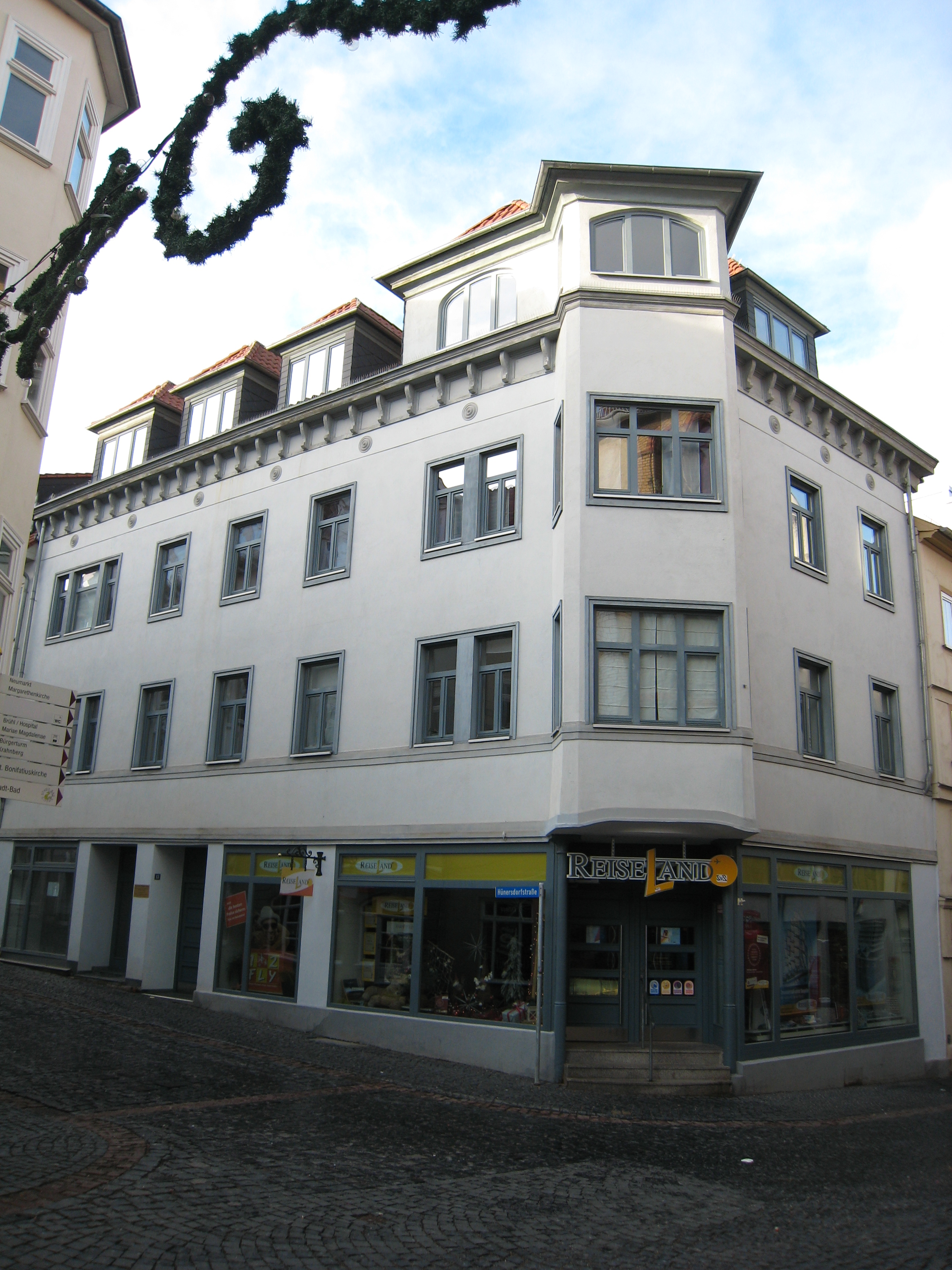 Hünersdorfstraße 13 Gotha